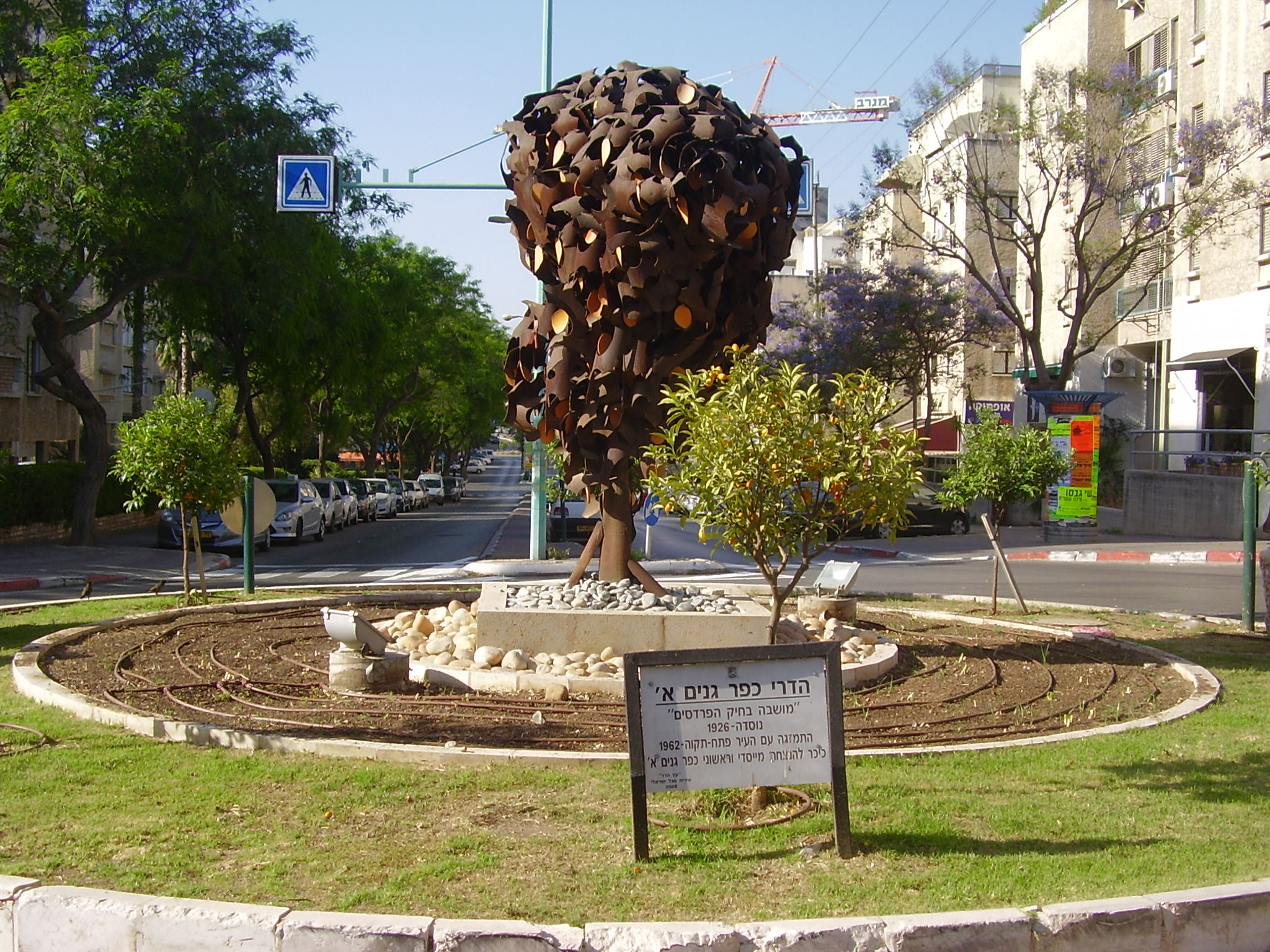 founders square in kfar ganim a' in petah-tikva